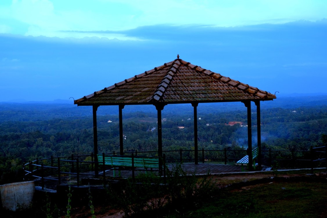 End point